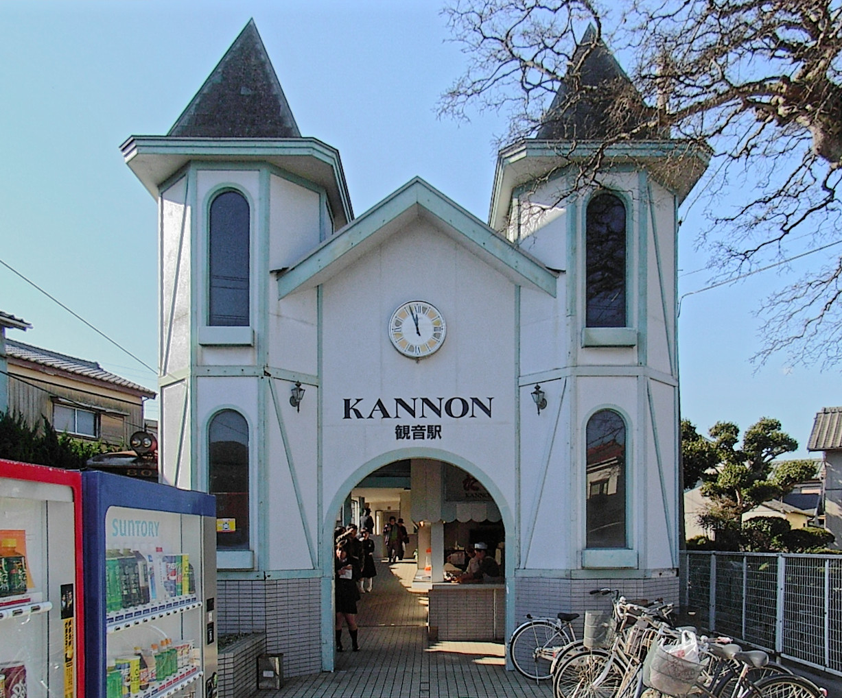 Kannon Station on the Choshi Electric Railway in Chiba, Japan